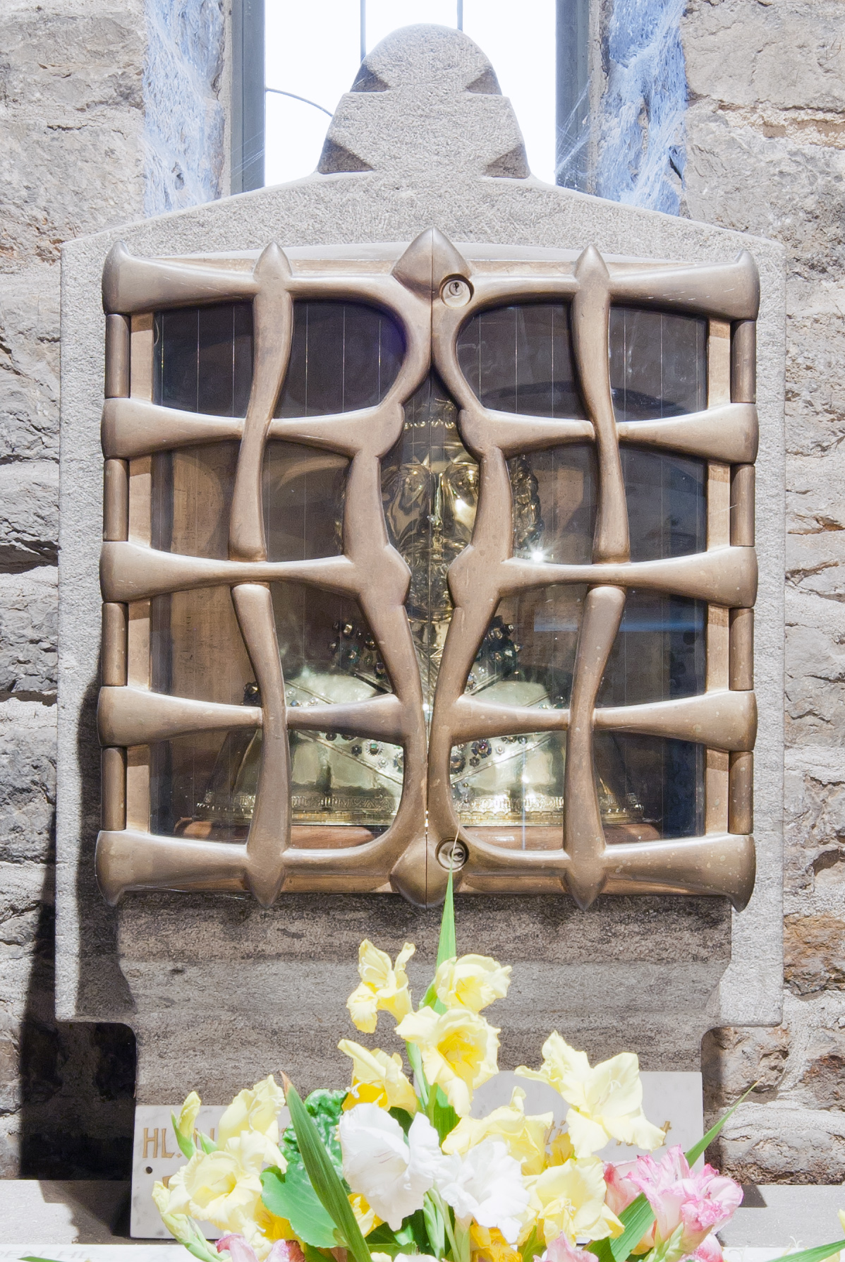 Limburg an der Lahn-Dietkirchen: St. Lubentius, Lubentius chapel, detail of bust reliquiary of St. Lubentius